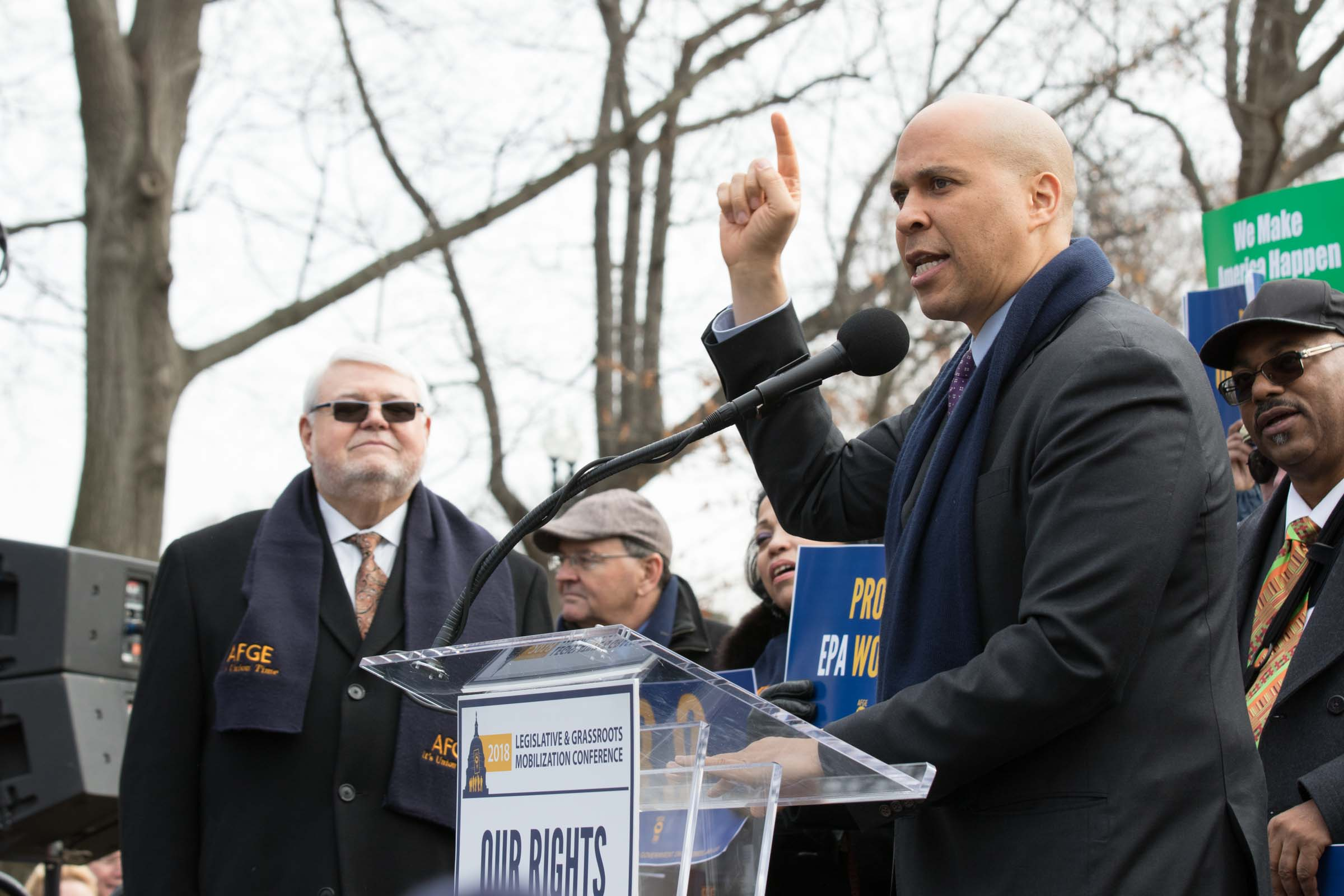 AFGE holds rally in Upper Senate Park to stand up for government workers' jobs, pay, benefits, and rights at work. In attendance were House Minority Leader Nancy Pelosi; Senators Cory Booker, Maize Hirono, and Chuck Schumer; Representatives Steny Hoyer, Gerry Connolly, Joe Crowley, Keith Ellison, Jan Schakowsky, and Ben Ray Lujan; AFGE members; and other union activists. -photo by Keith Mellnick